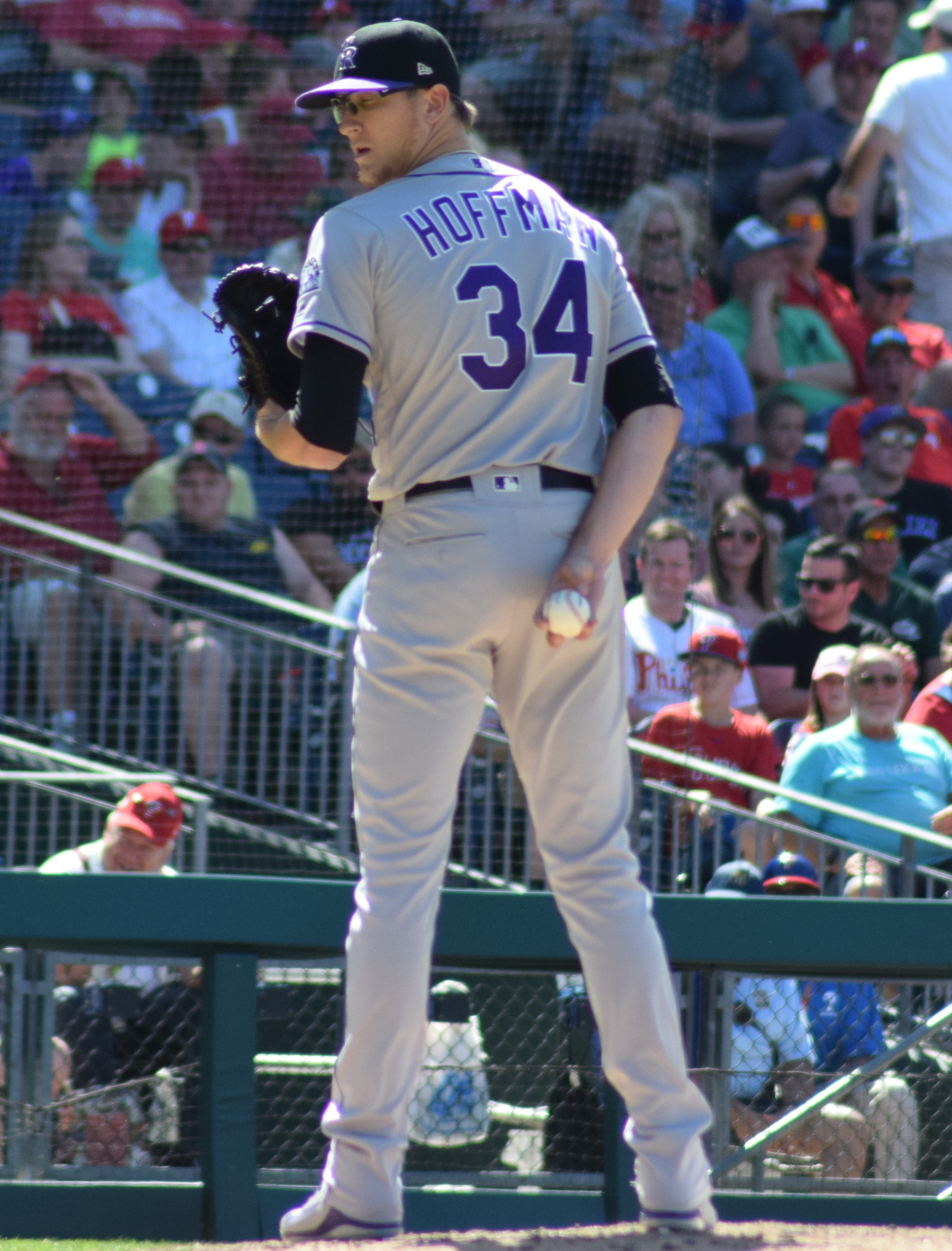 Jeff Hoffman